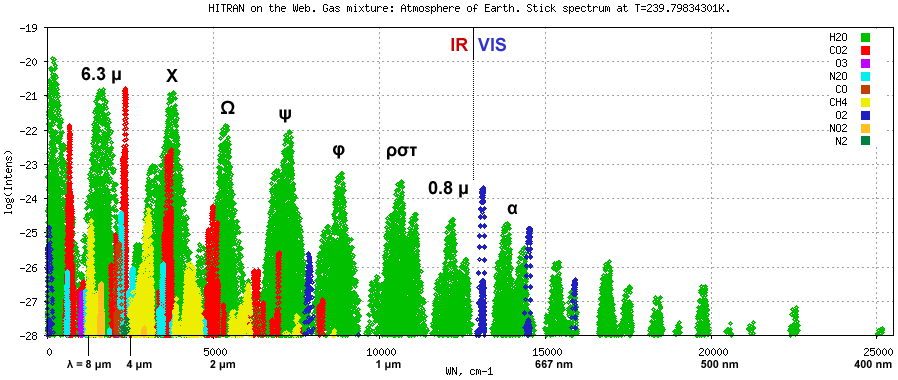 This is modification of a synthetic atmosphere absorption spectrum (Stick spectrum) for a custom gas mixture containing: H2O: 0.400000 CO2: 0.039445 O3: 0.000003 N2O: 0.000032 CO: 0.000010 CH4: 0.000179 O2: 20.946000 NO2: 0.000002 N2: 78.084000 239.79834301K, 0.380327366537013 atm generated using Hitran on the Web Information System.